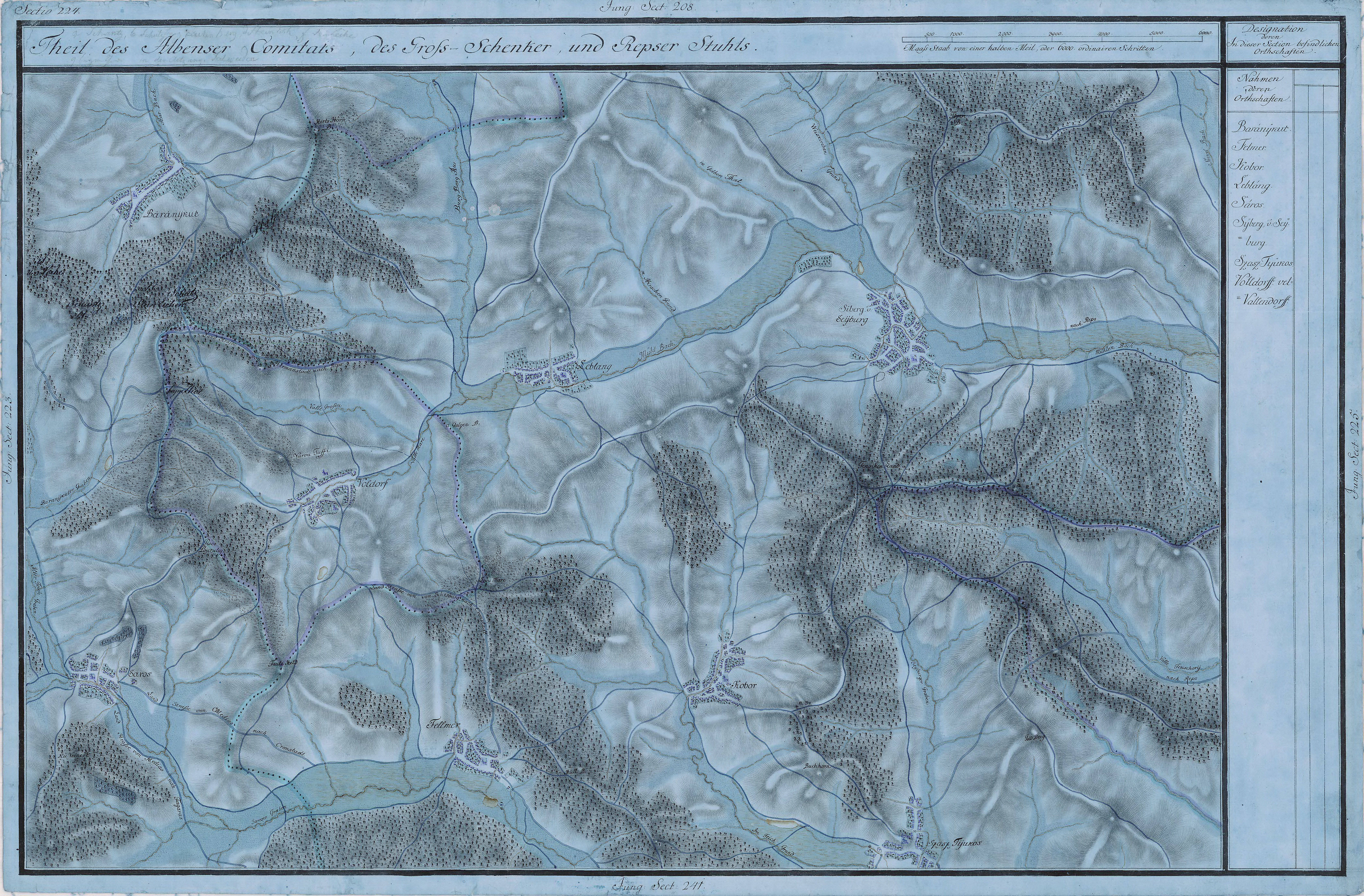 Grand Duchy of Transylvania, 1769-1773. Josephinische Landaufnahme pg.224